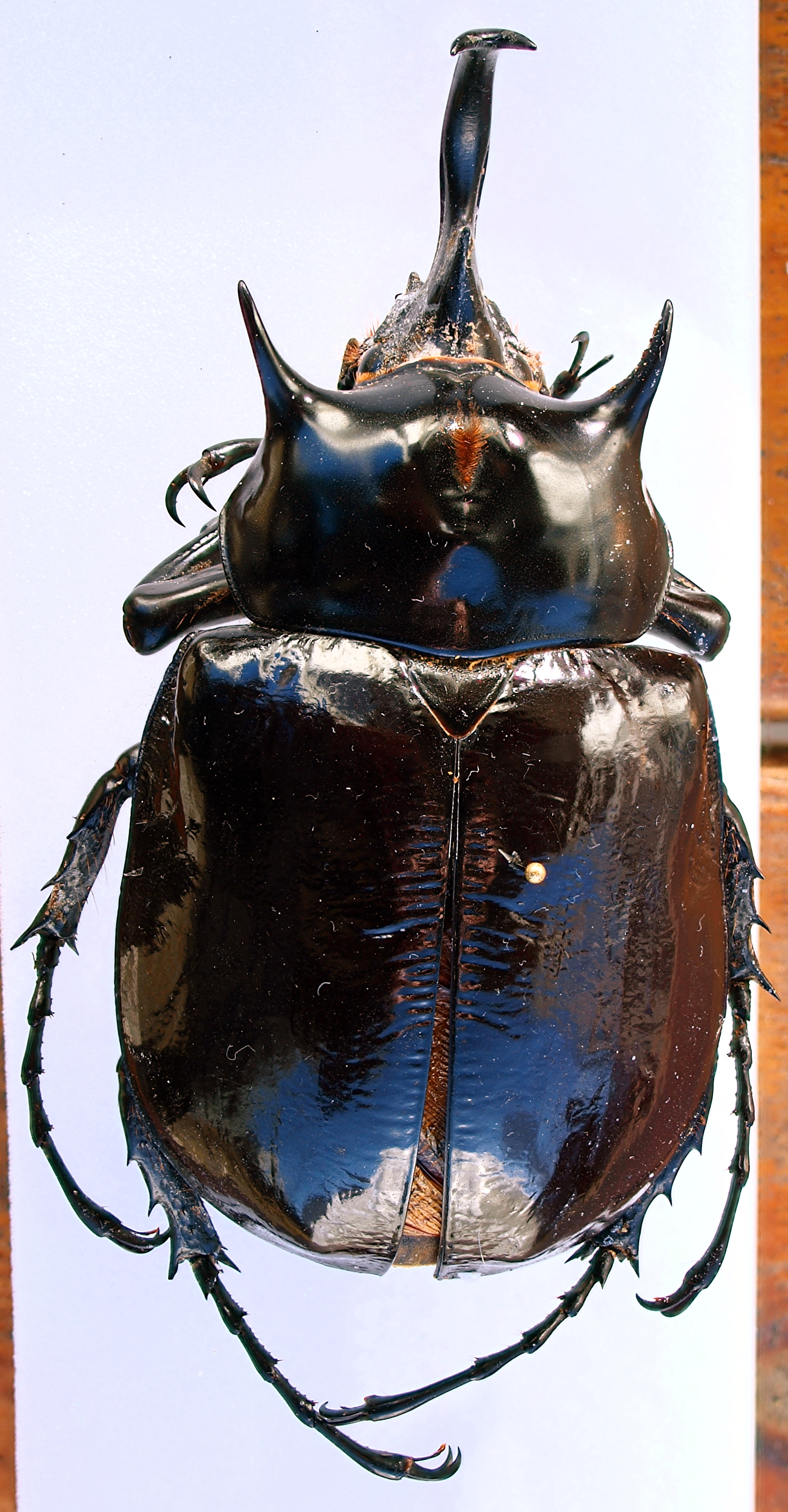 Megasoma mars, male